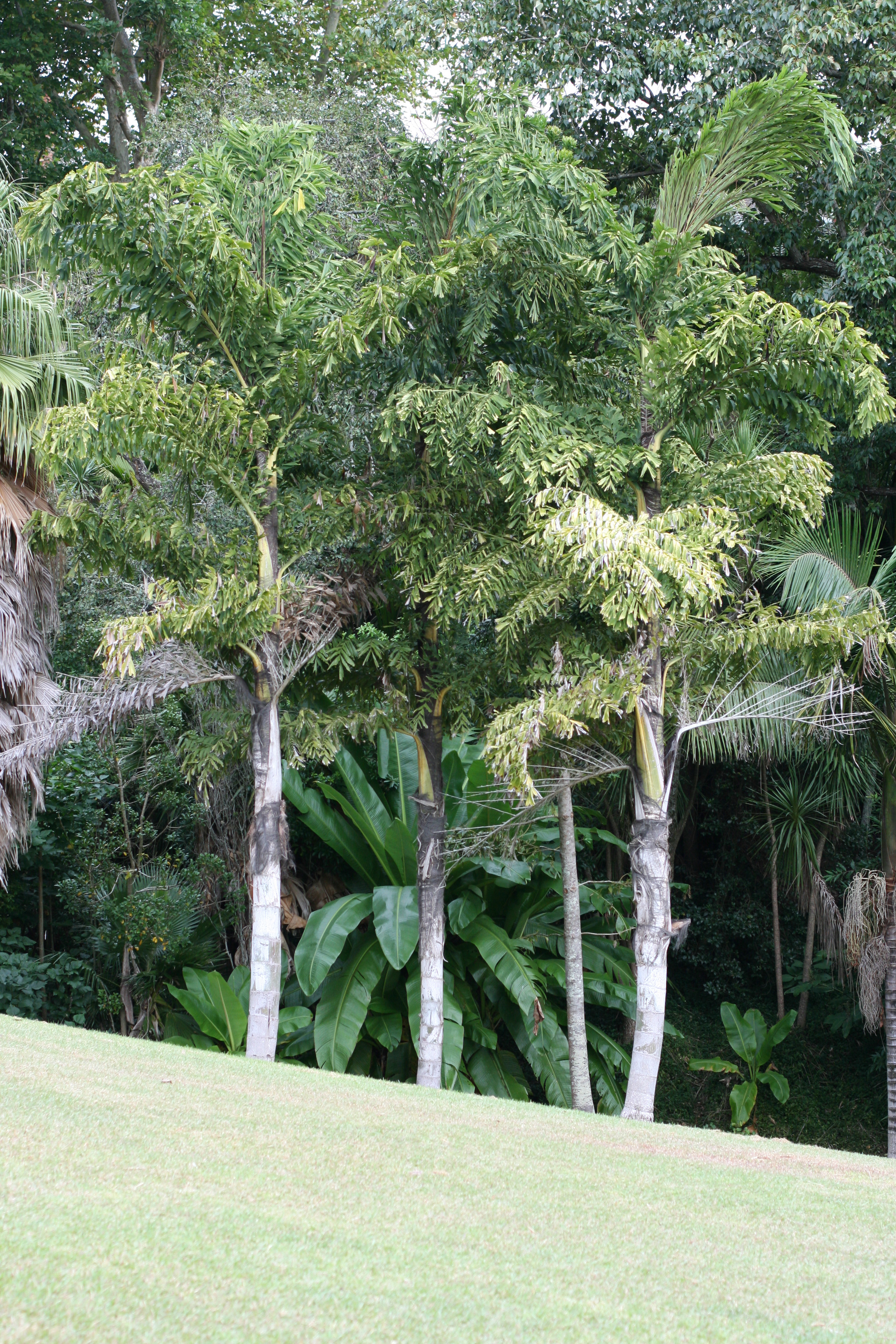 Caryota urens, Fishtail palm or Wine palm, Alberon Park, Parnell, New Zealand